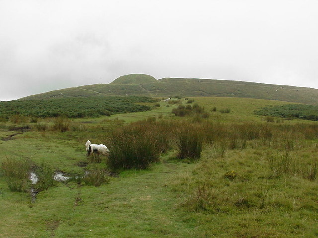 Twmbarlwm Hill Fort. Twmbarlwm is an easy climb from the Cwmcarn Forest Drive and has some of the best views in South Wales